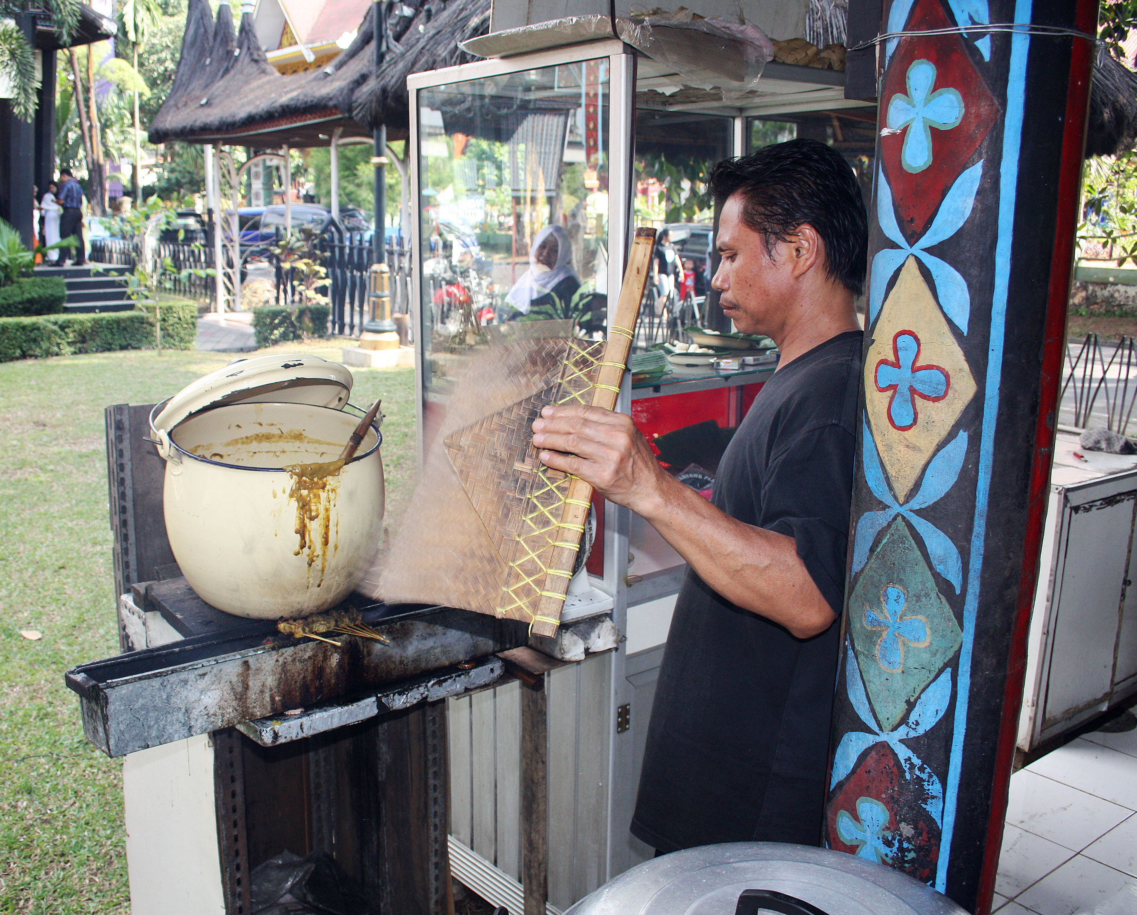 Sate Padang vendor at West Sumatra Pavilion, Taman Mini Indonesia Indah, Jakarta.